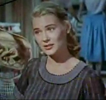 Screenshot of Hope Lange from the trailer for the film Peyton Place